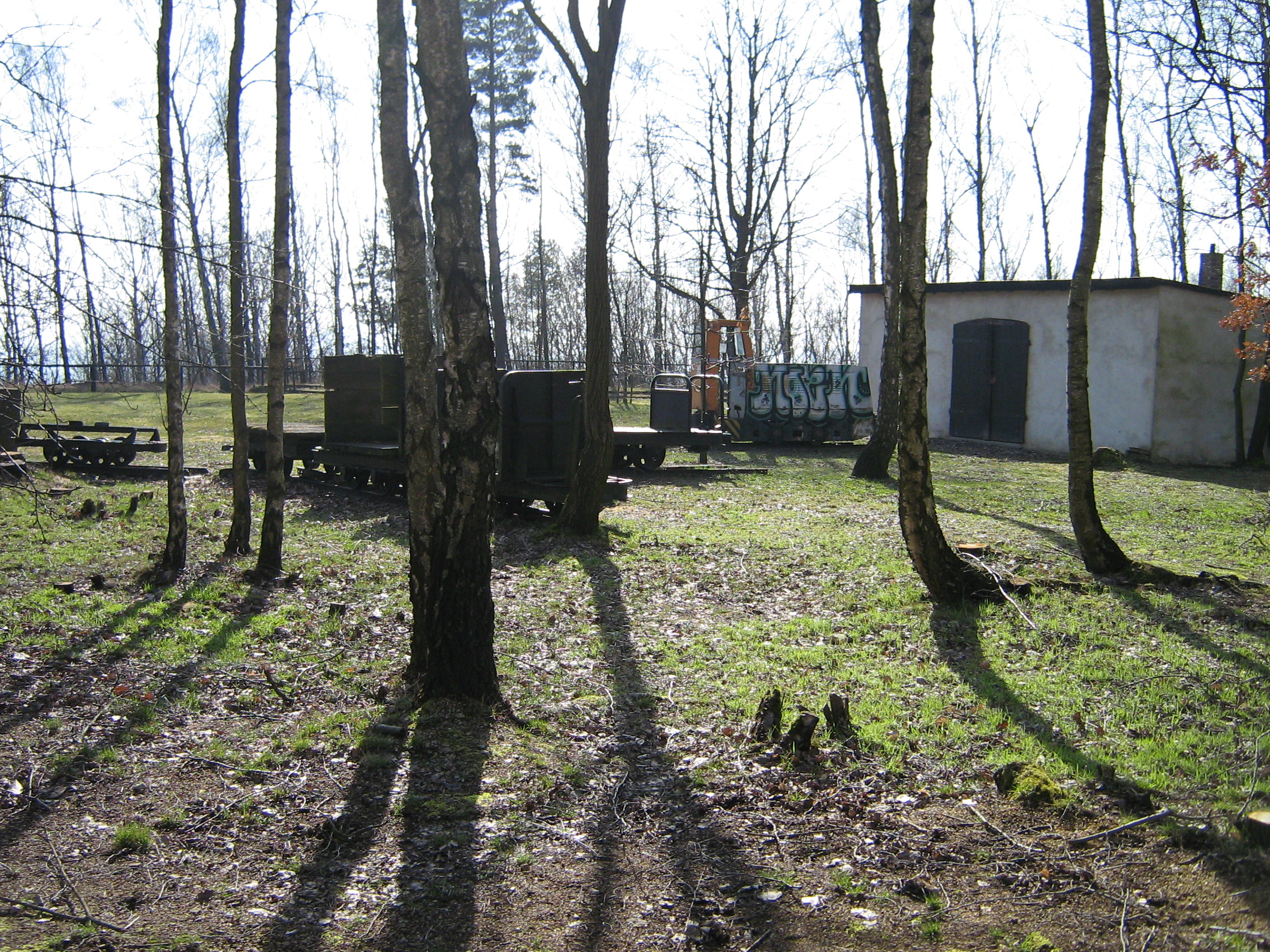 mountains Konigshainer Berge - Quarry museum